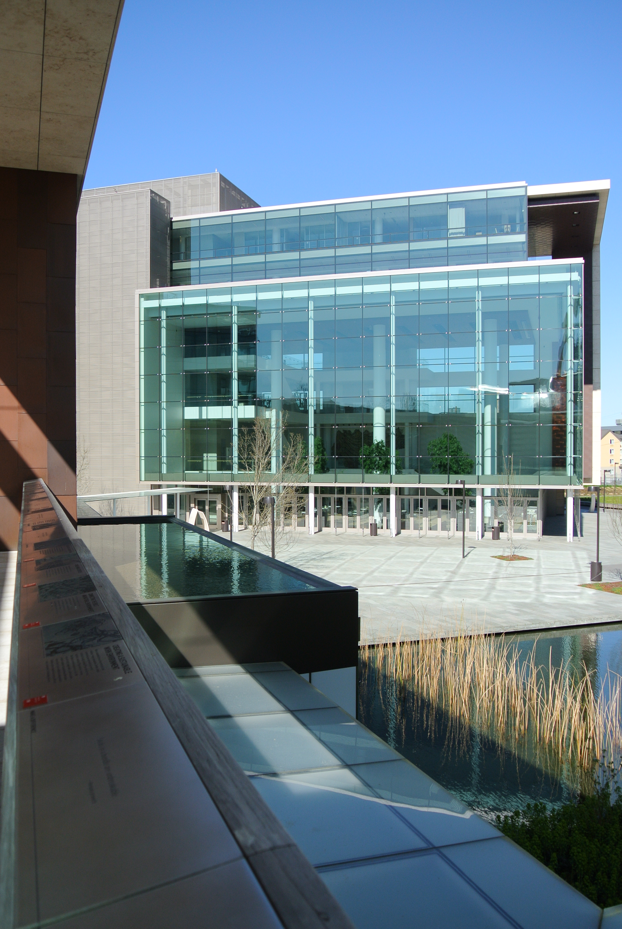 Rear building of the Bill and Melinda Gates Foundation in Seattle.